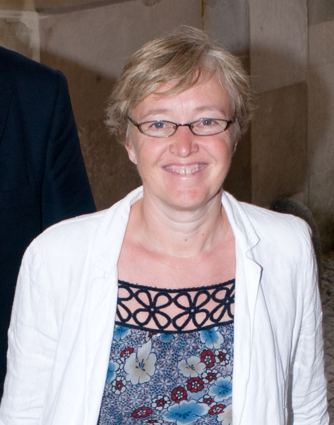 Jo Valentine, Baroness Valentine at the Financial Times annual summer party at Lancaster House, London